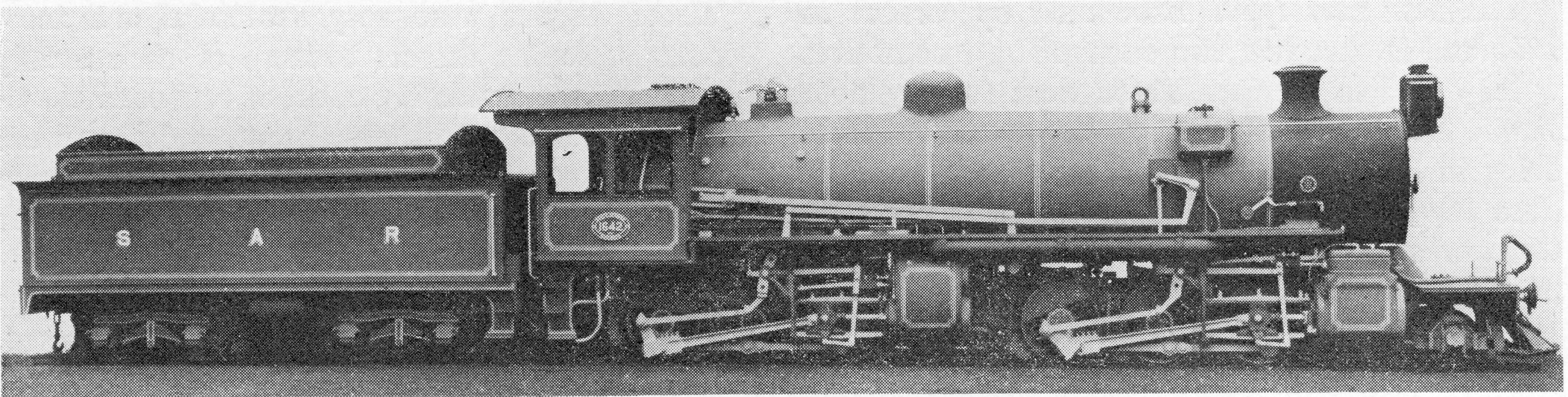 SAR Class MC1 1642 (2-6-6-0)